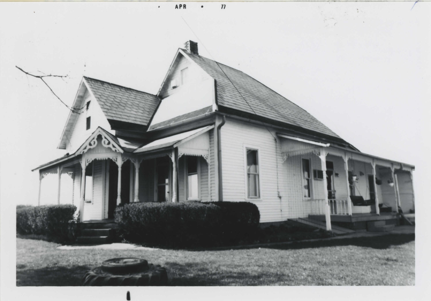 Front of the Carl H. Shier House, located at 7026 Shier-Rings Road near Amlin in Washington Township, Franklin County, Ohio, United States. Built in 1900, it is listed on the National Register of Historic Places.